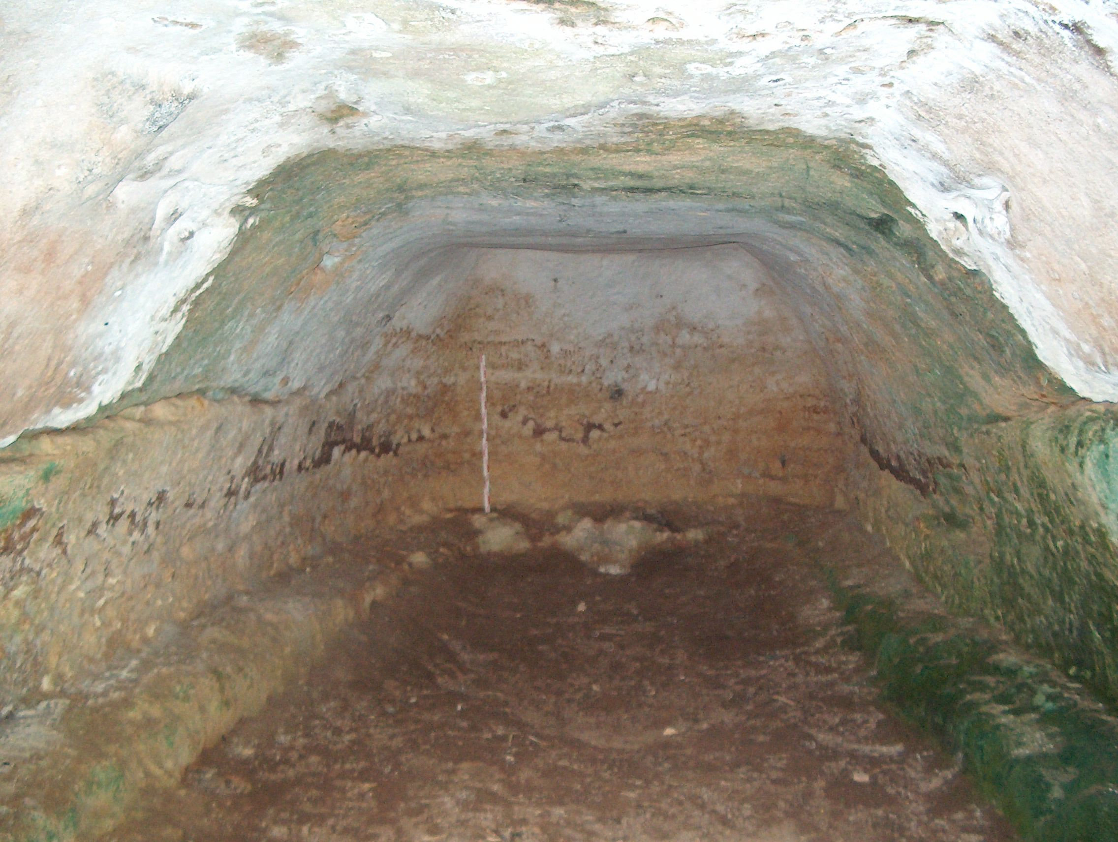 View of the chamber of Torre del Ram hypogeum